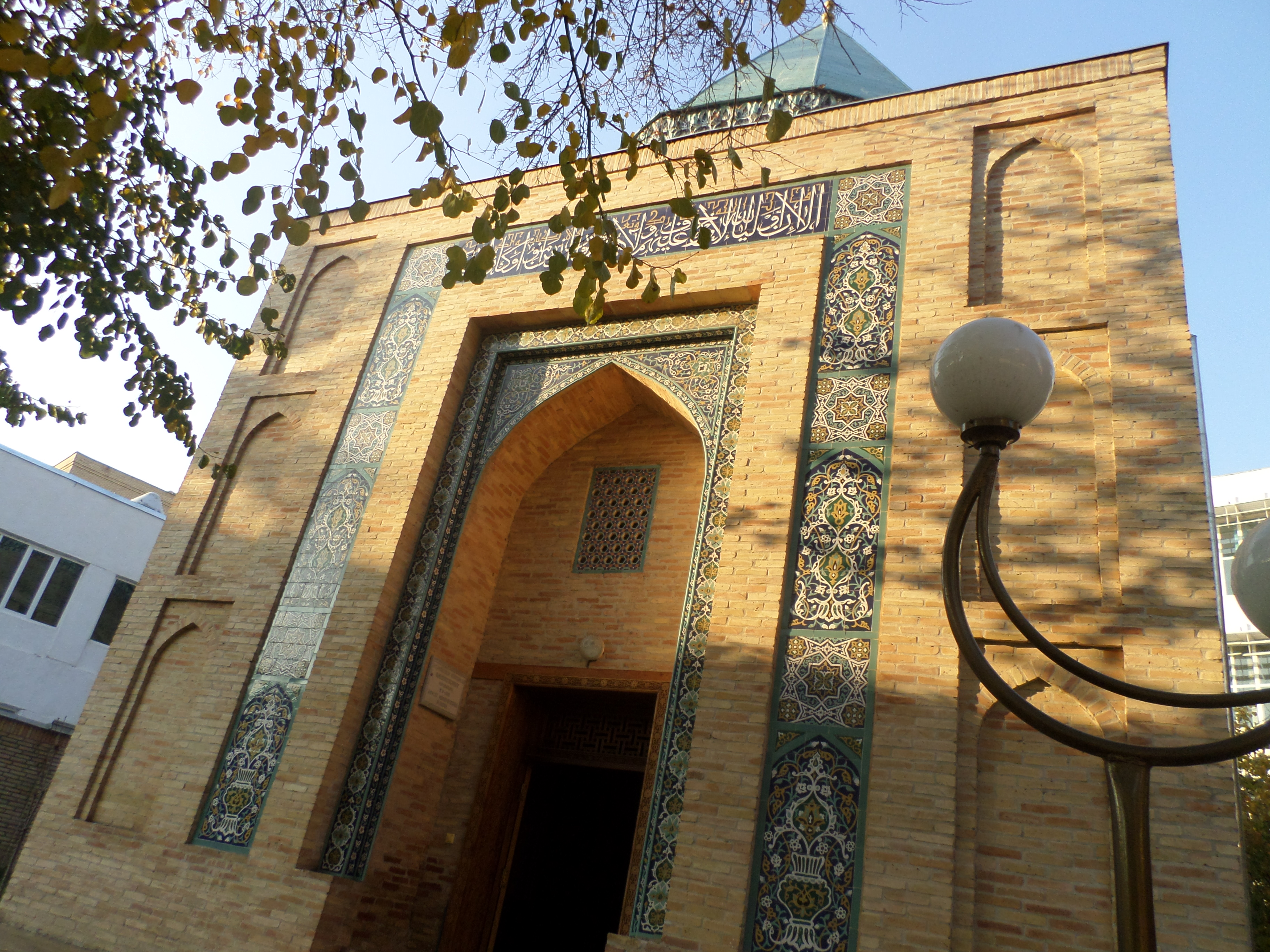 Mausoleum Kaldyrgach-biya